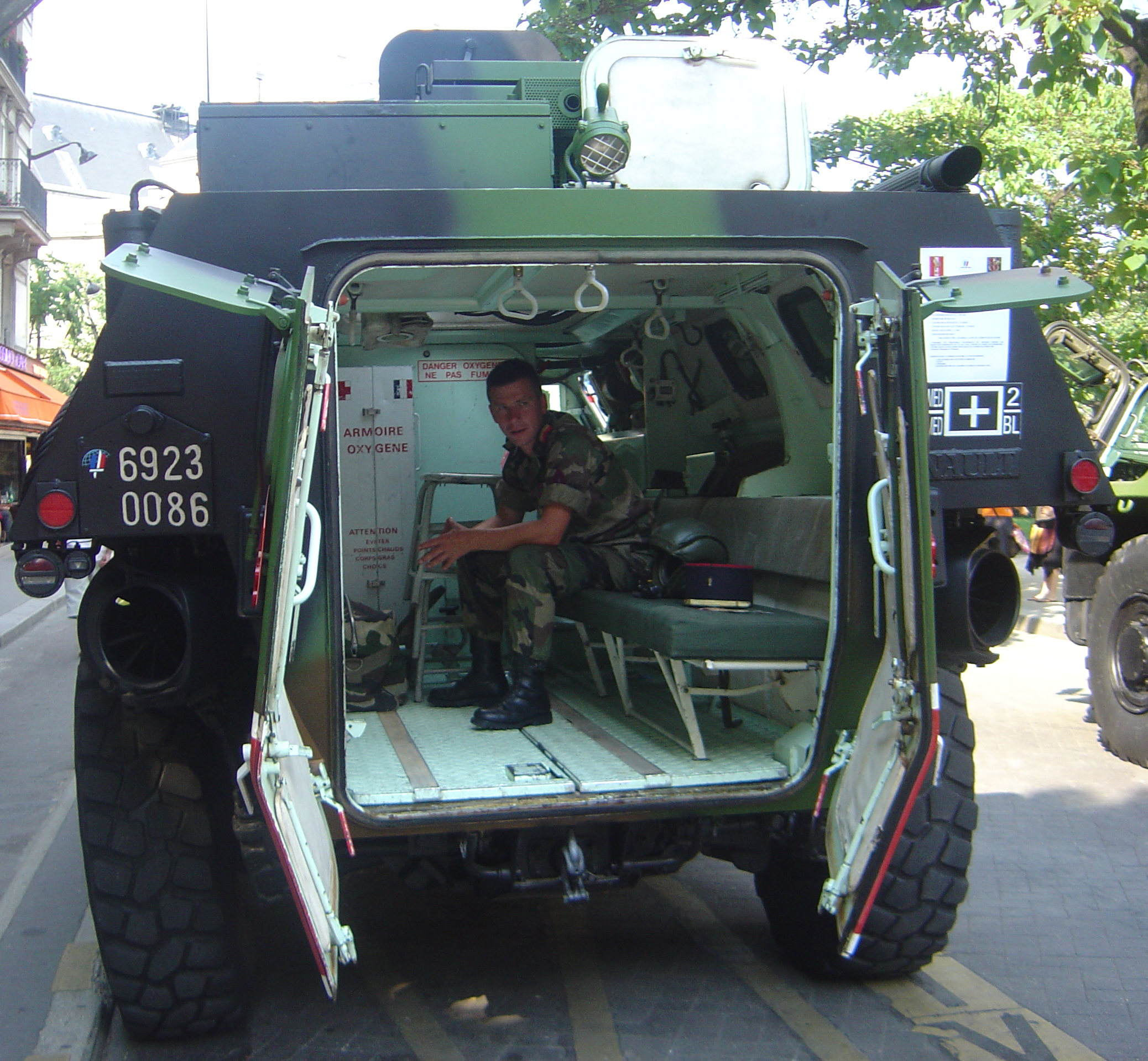 interior of VAB